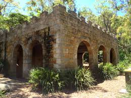 Oatley Park